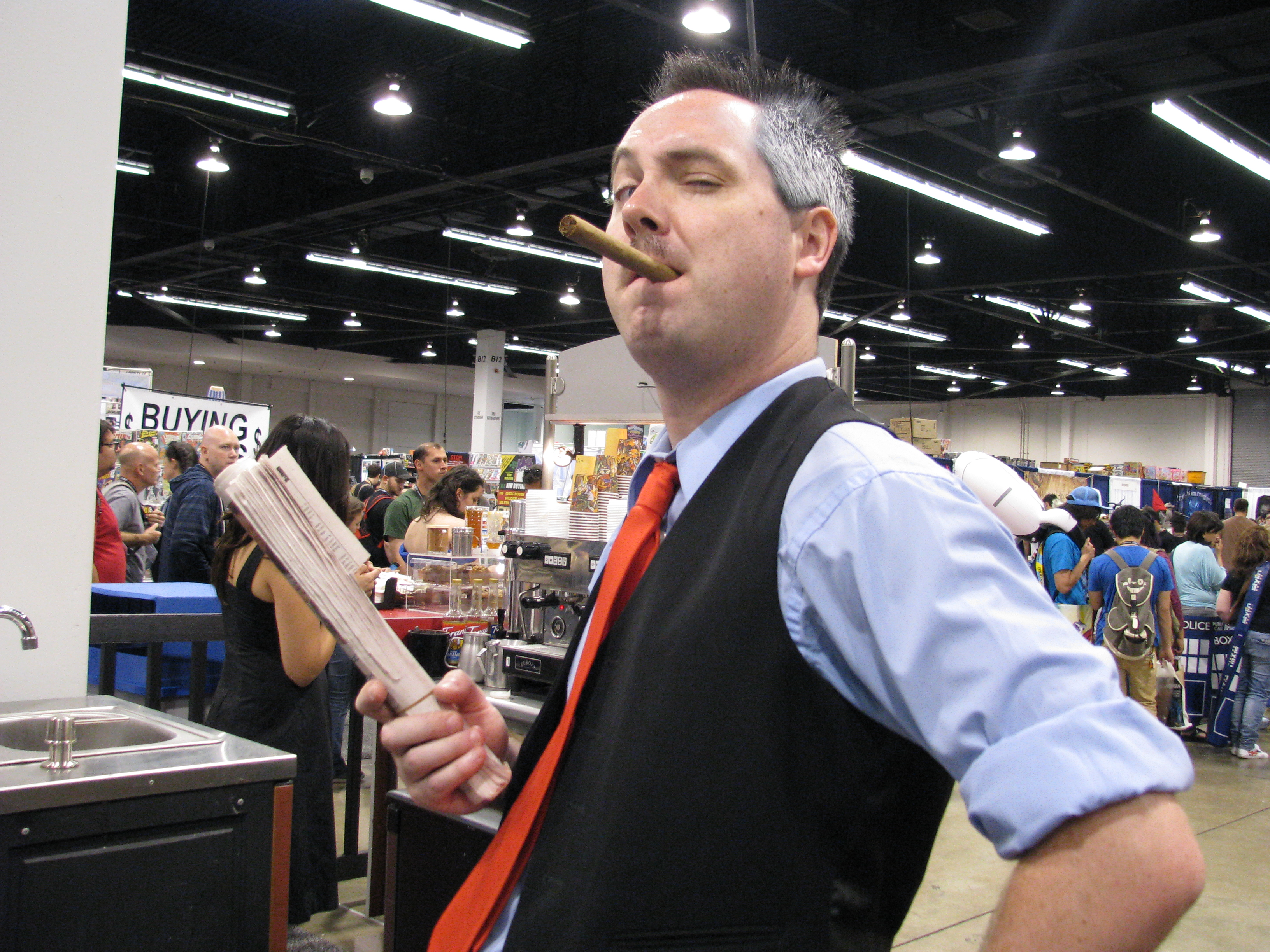 WonderCon 2014 - J. Jonah Jameson cosplay